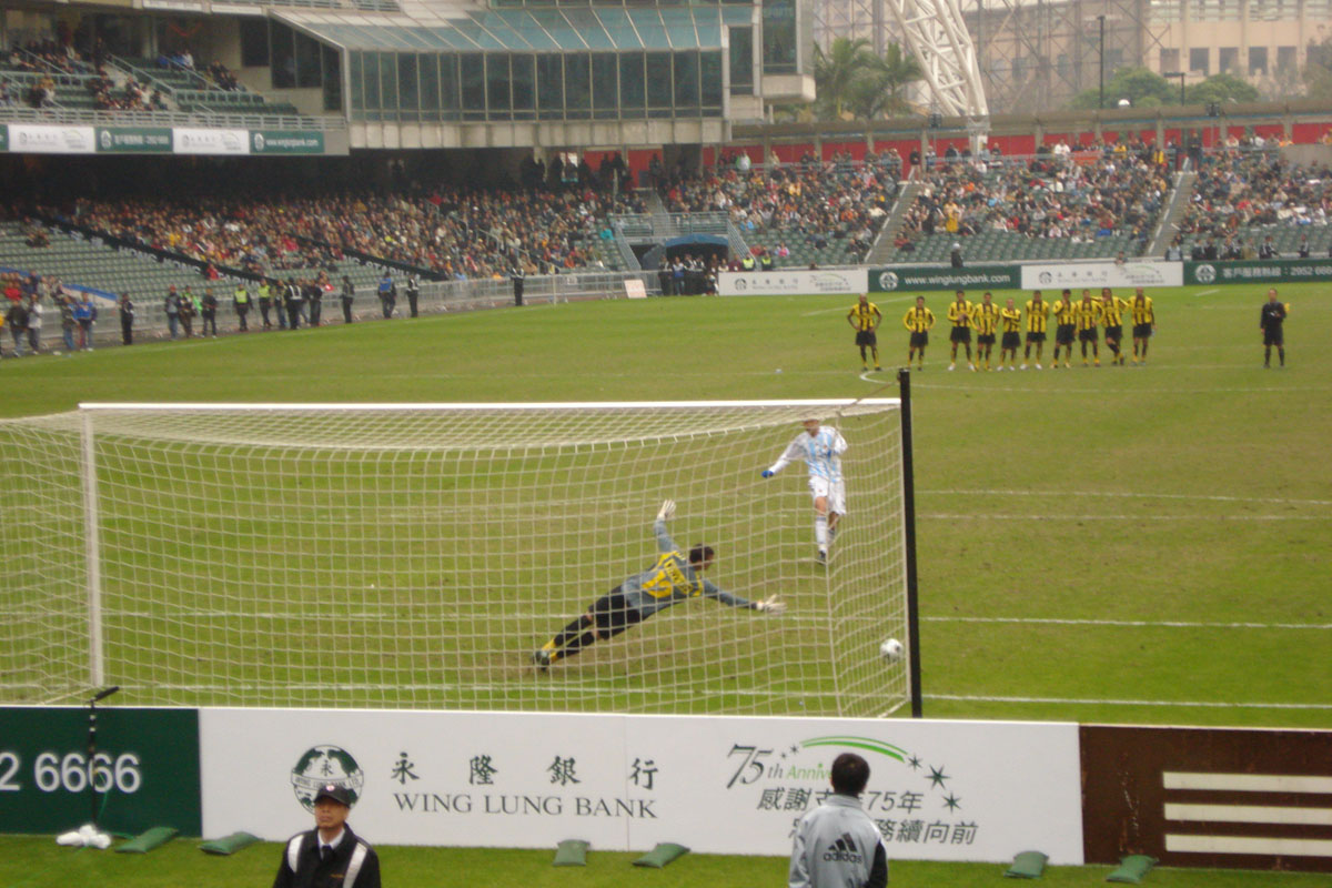 HK Lunar New Year Cup 2008